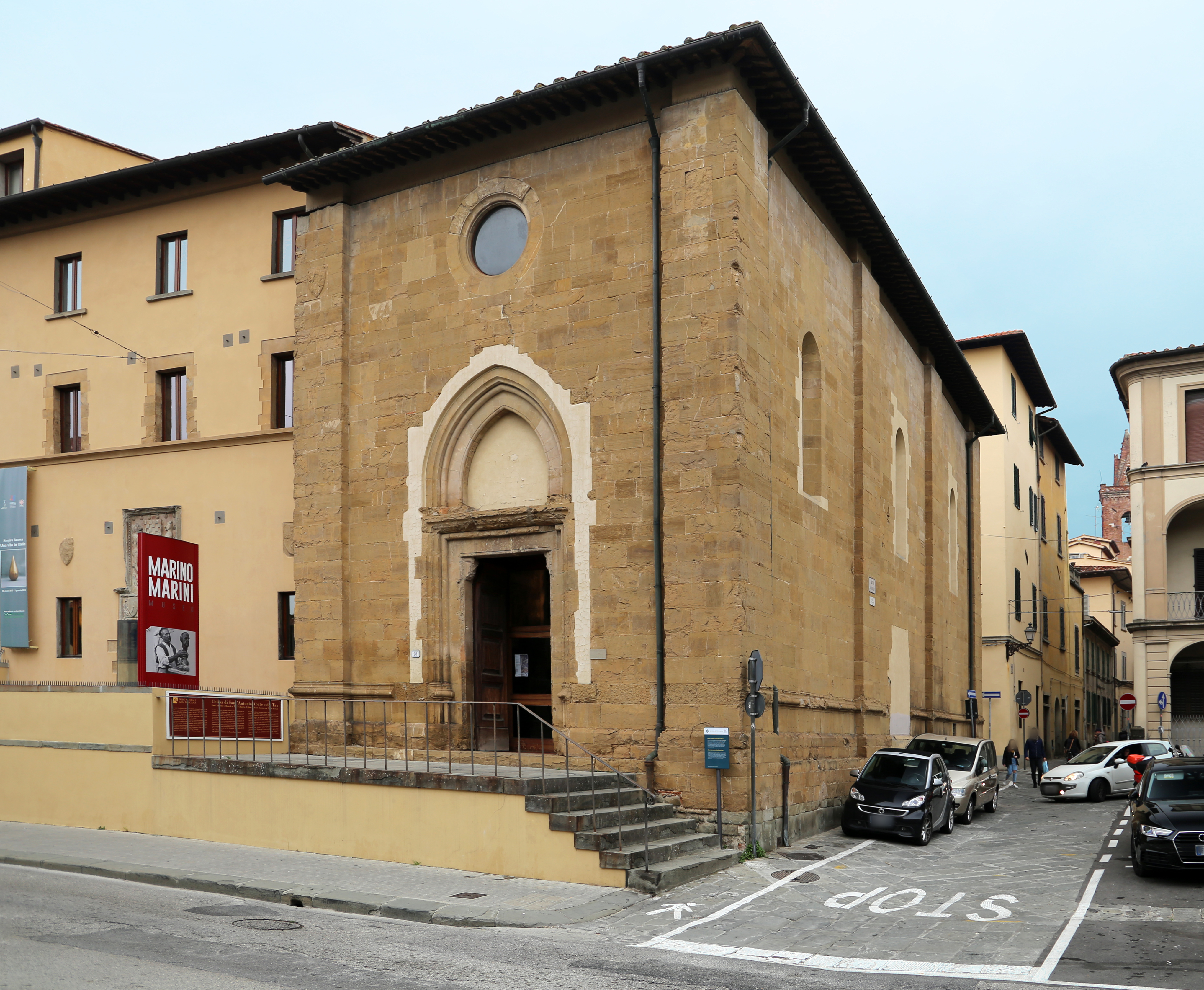 Sant'Antonio Abate del Tau (Pistoia)